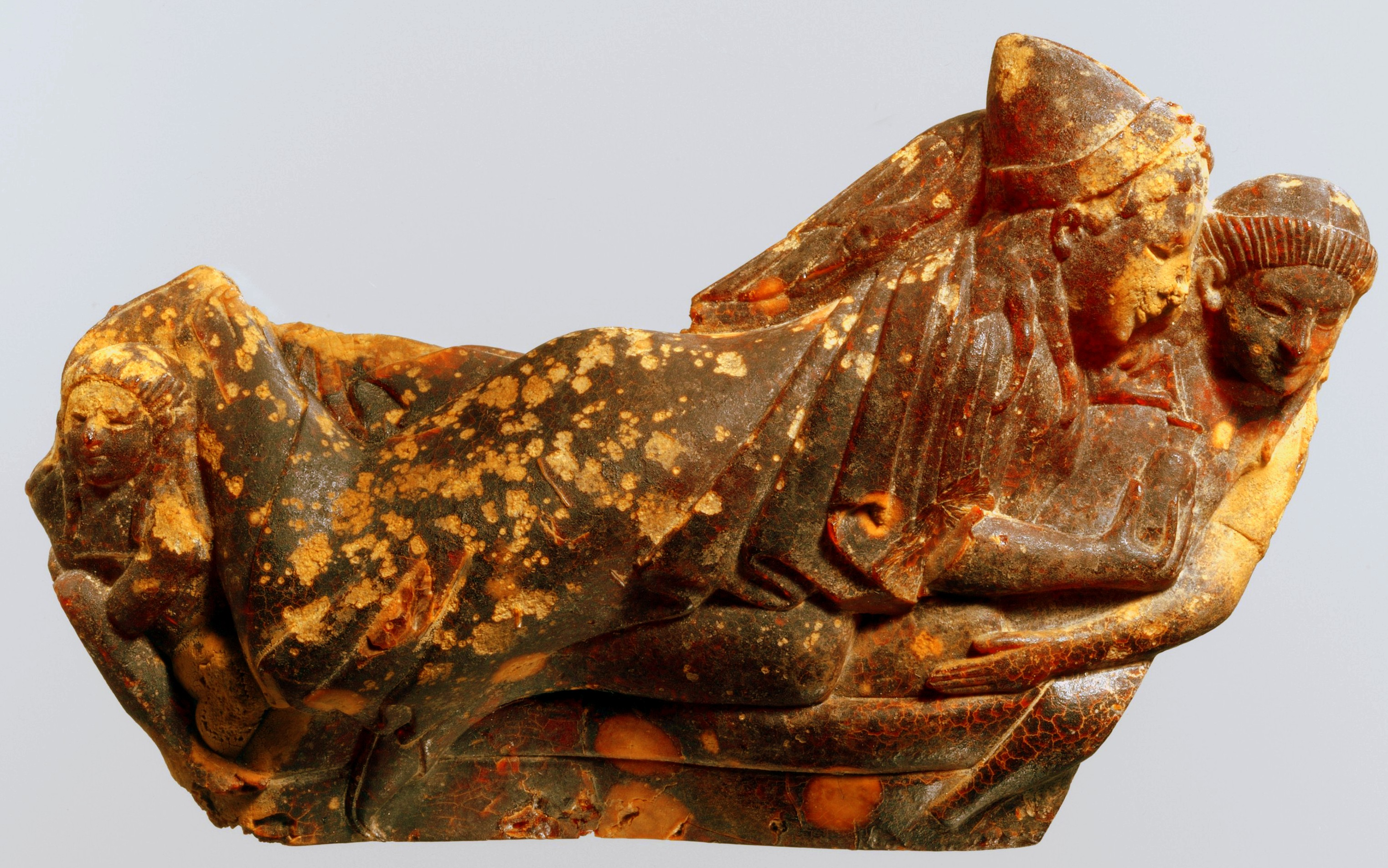 Etruscan; Relief of a woman and youth reclining; Miscellaneous-Amber